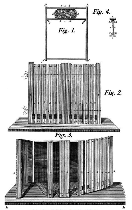 Francois Huber Hive